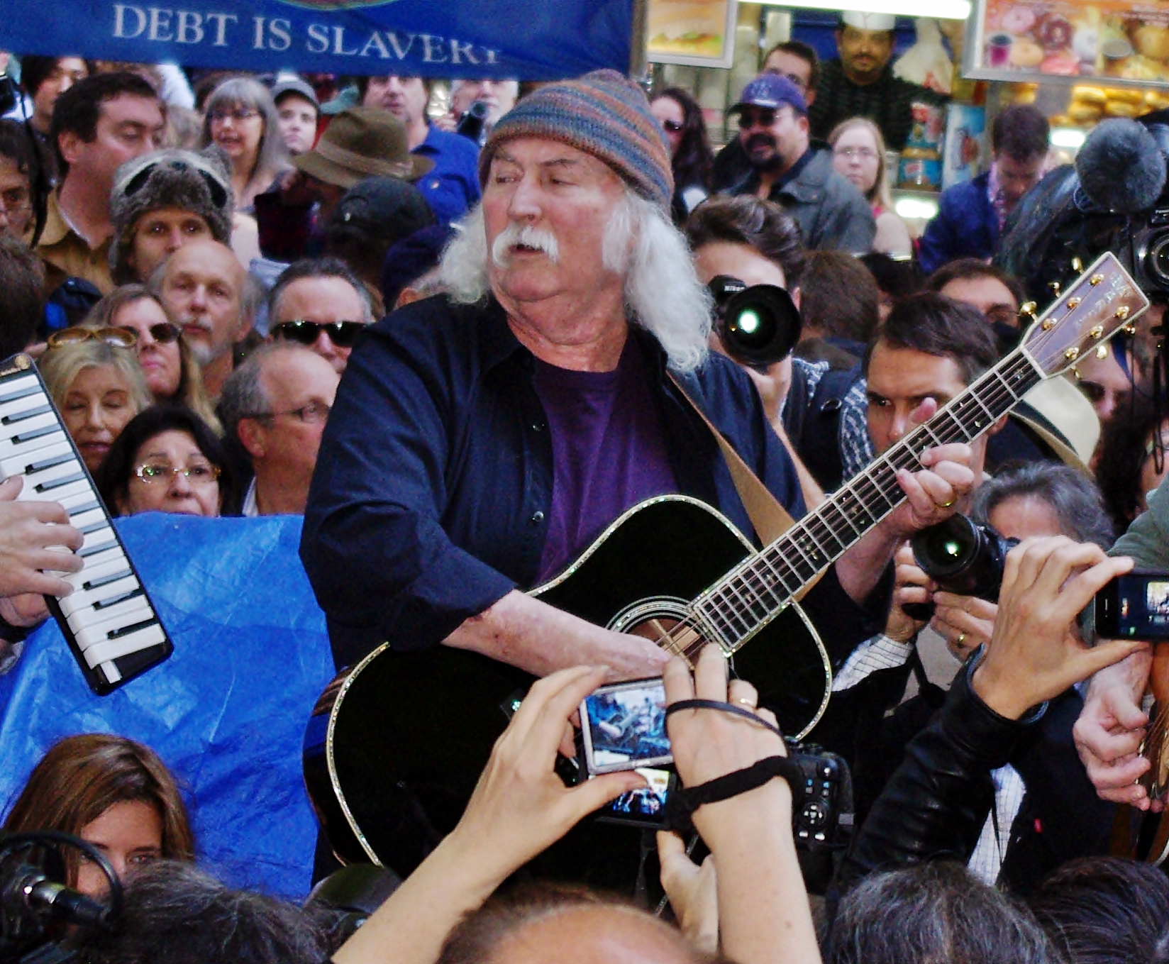 David Crosby and Graham Nash play Occupy Wall Street on Tuesday, November 8.